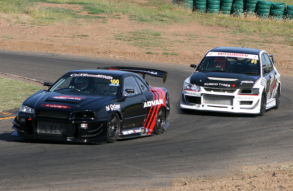 Hi Octane Racing R34 verses Tilton Interiors EVO in a battle for the Super Lap supremacy. Oran Park, Sydney, Australia, April 2009